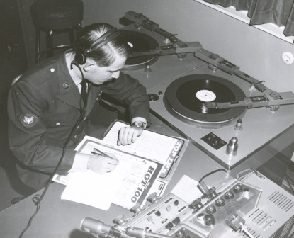 DJ at AFN-Berlin-Studio circa 1968